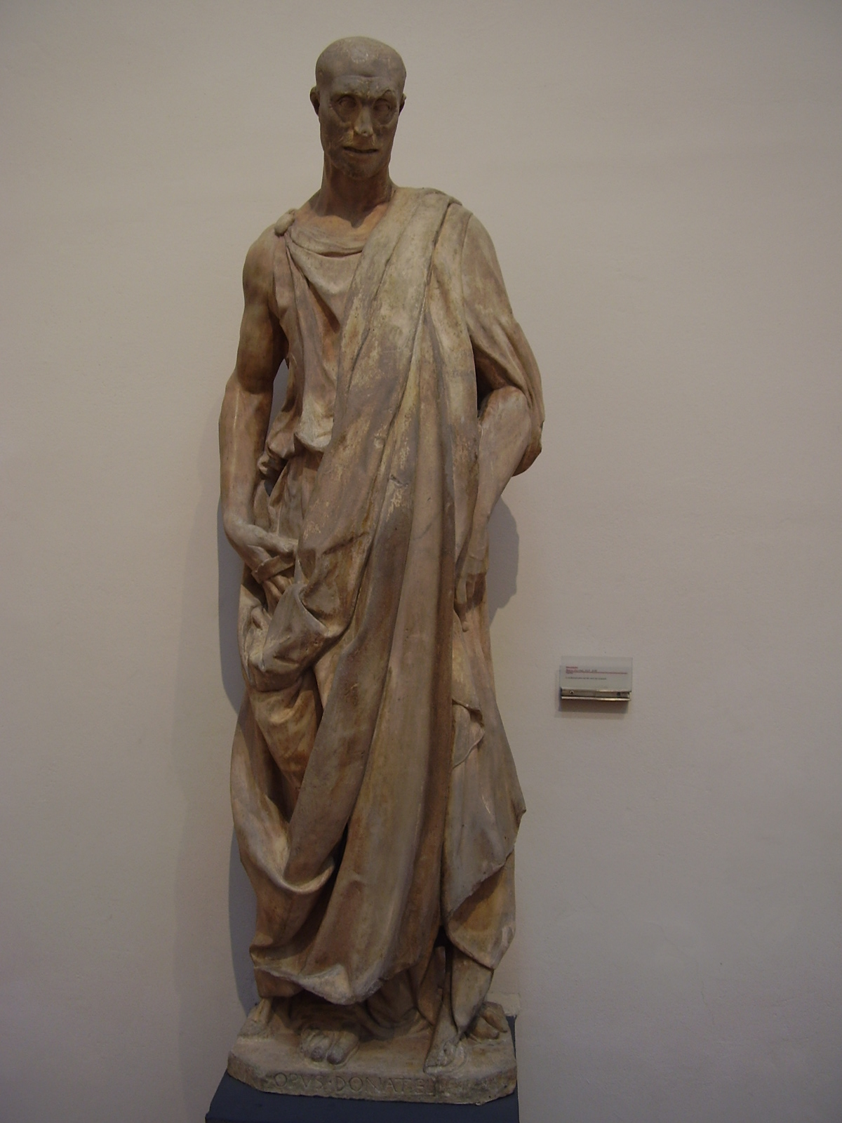 Abacuc, sculputure by Donatello in Opera del Duomo Museum Museo in Florence, Italy Firenze